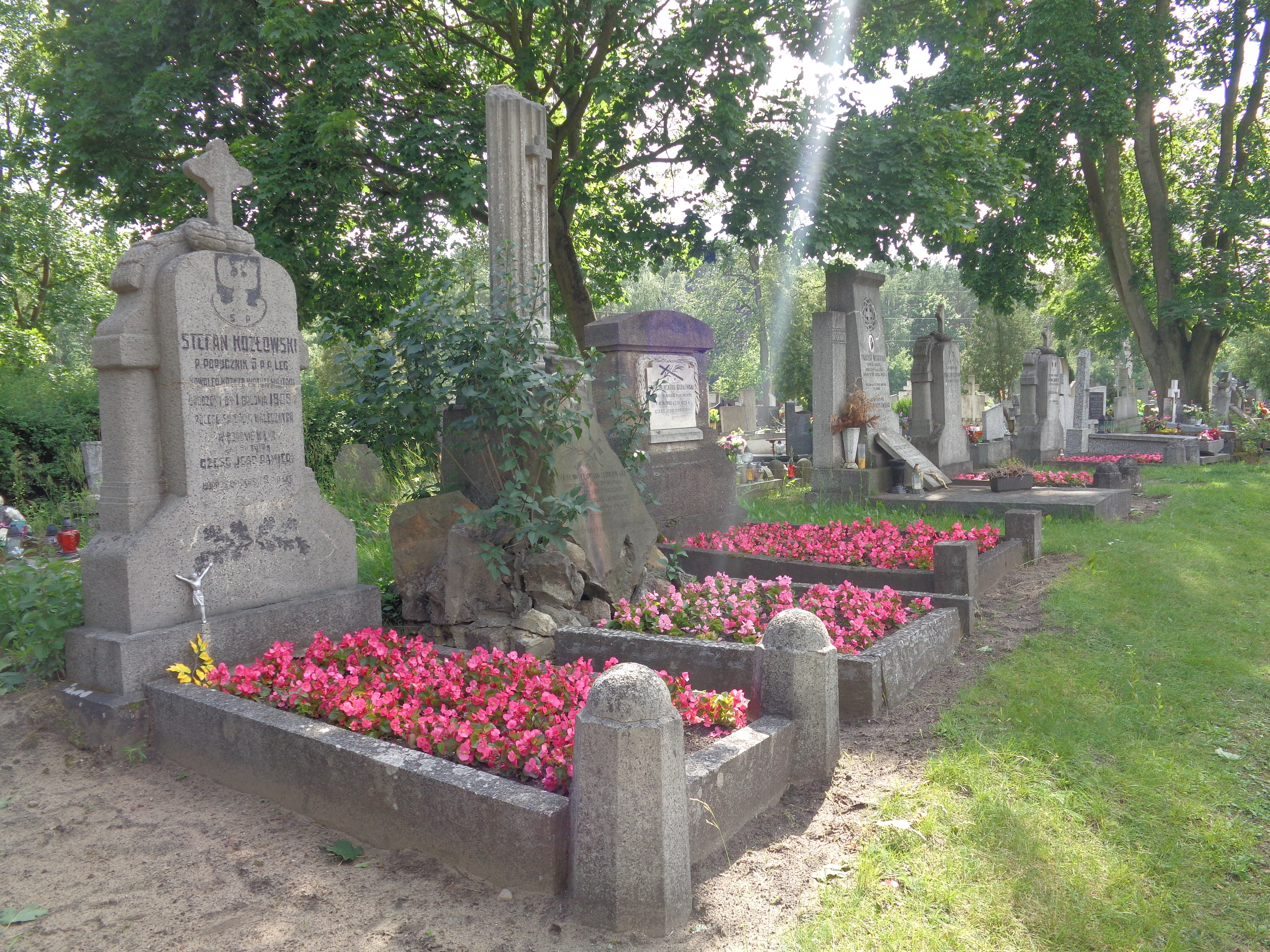 Avenue of deserved soliders of II Poland Republic on communal cemetery in Włocławek.